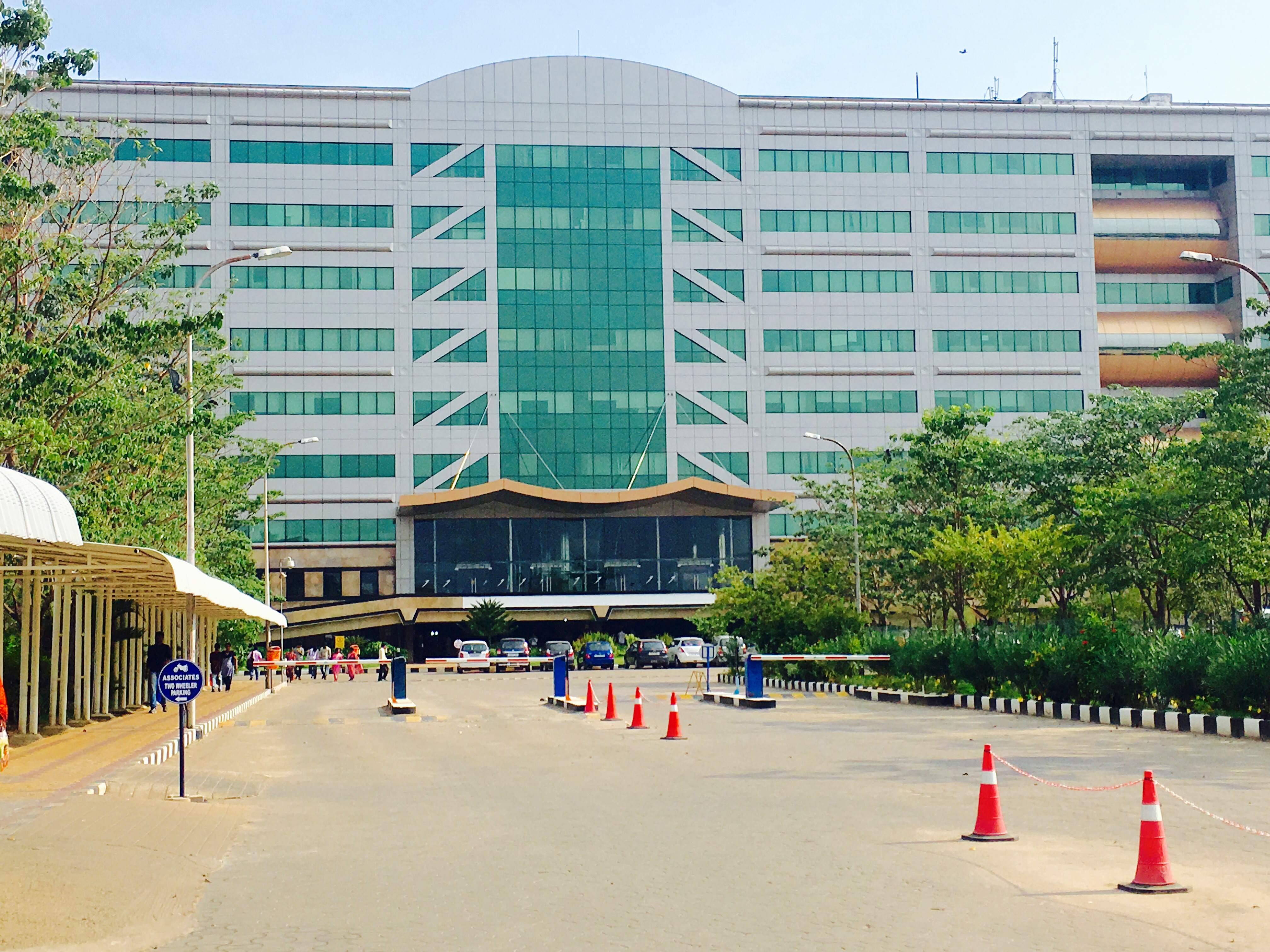 This is Chennai One Special Economic Zone, a major IT park in Chennai